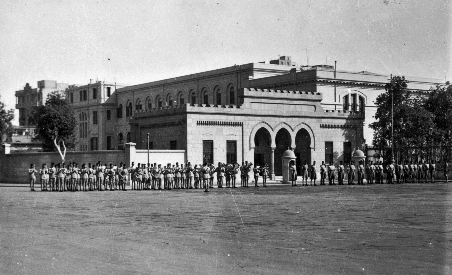 021 1941 - Changing of guard at King Faoud's Palace, Cairo, Egypt (by Tom Beazley)